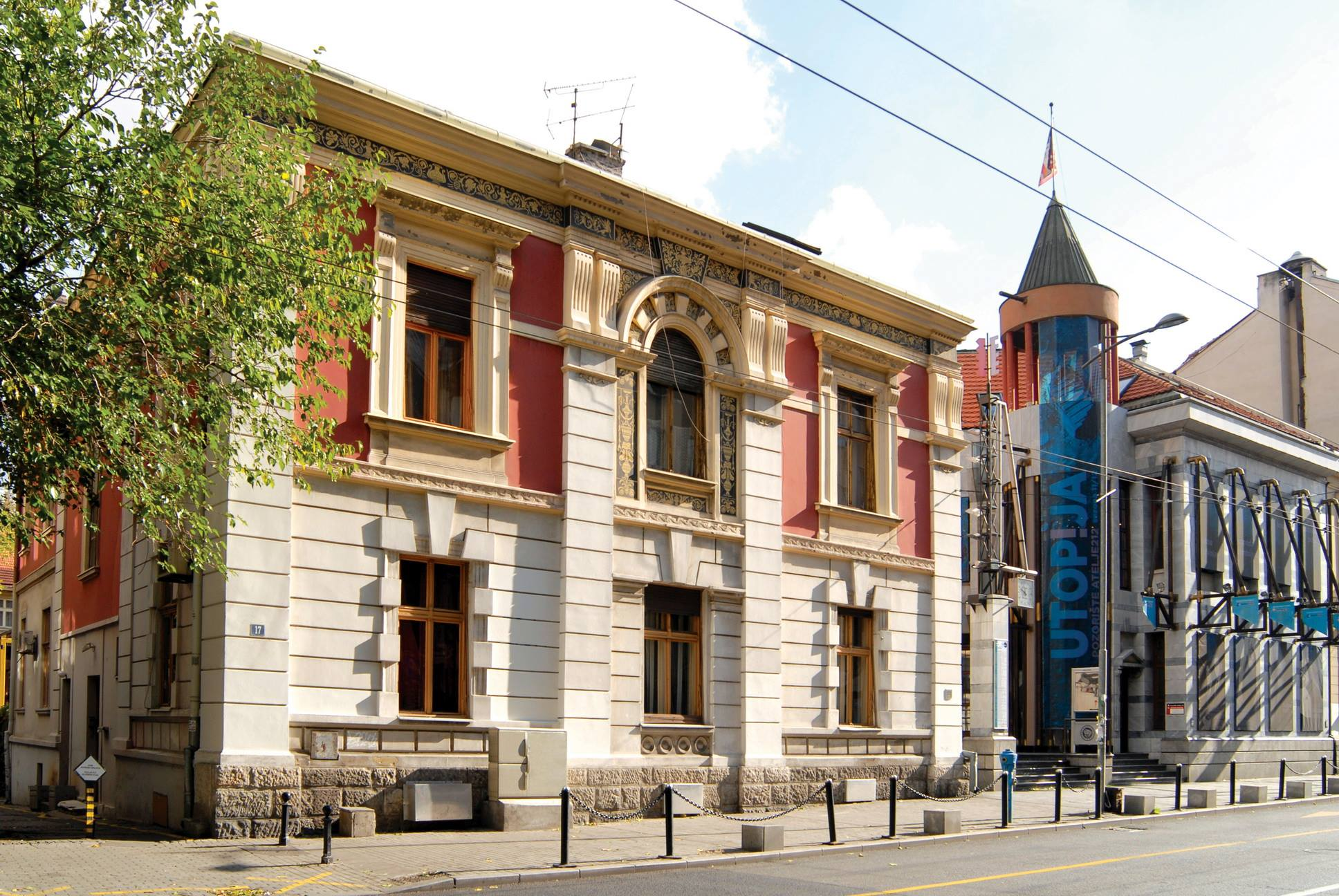 Izgled doma spolja.